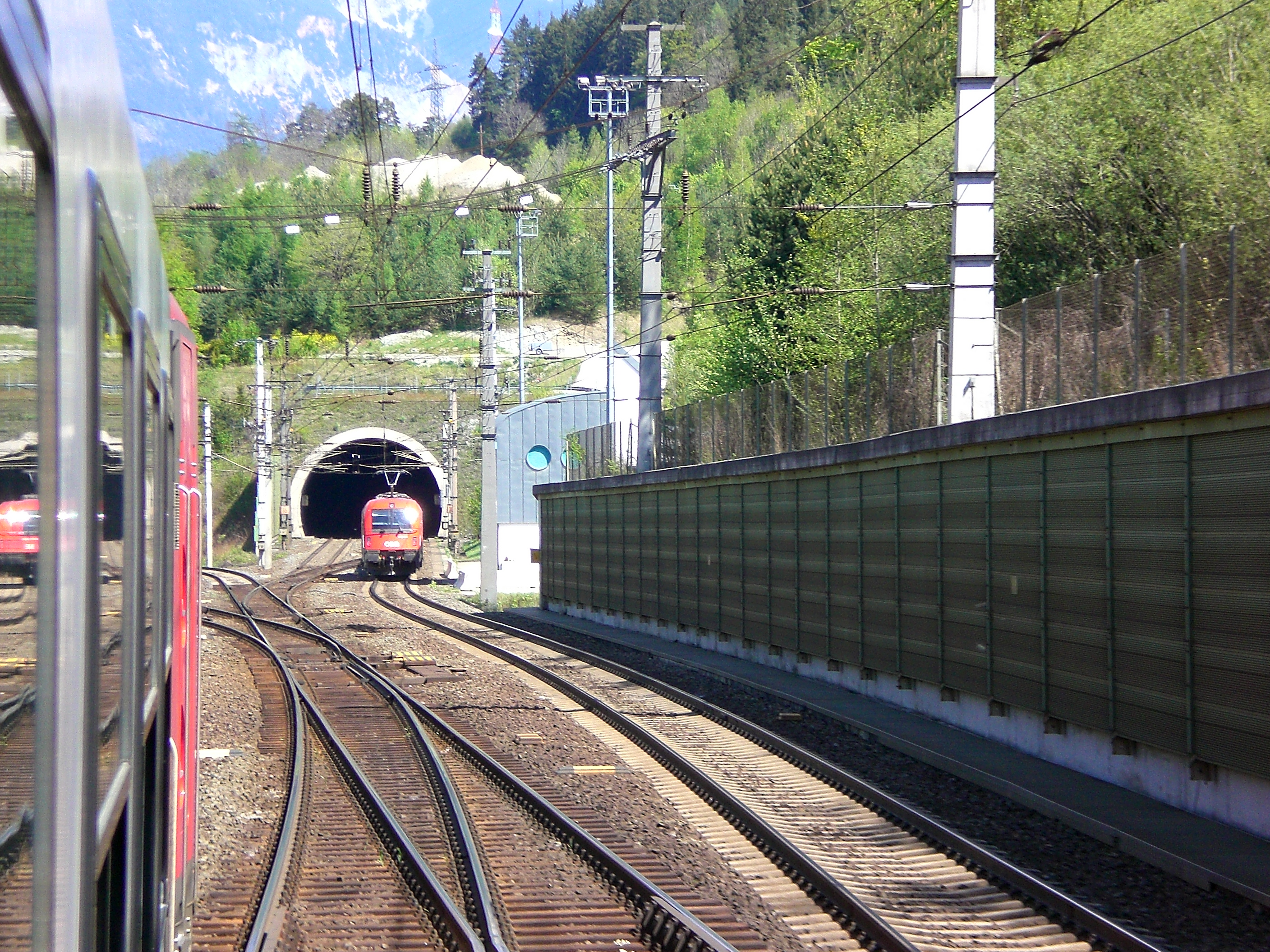 Southern-portal of the Inntaltunnel near Innsbruck, Austria. There is just a train of the Rolling Road running in with a class 1216 engine at its end.